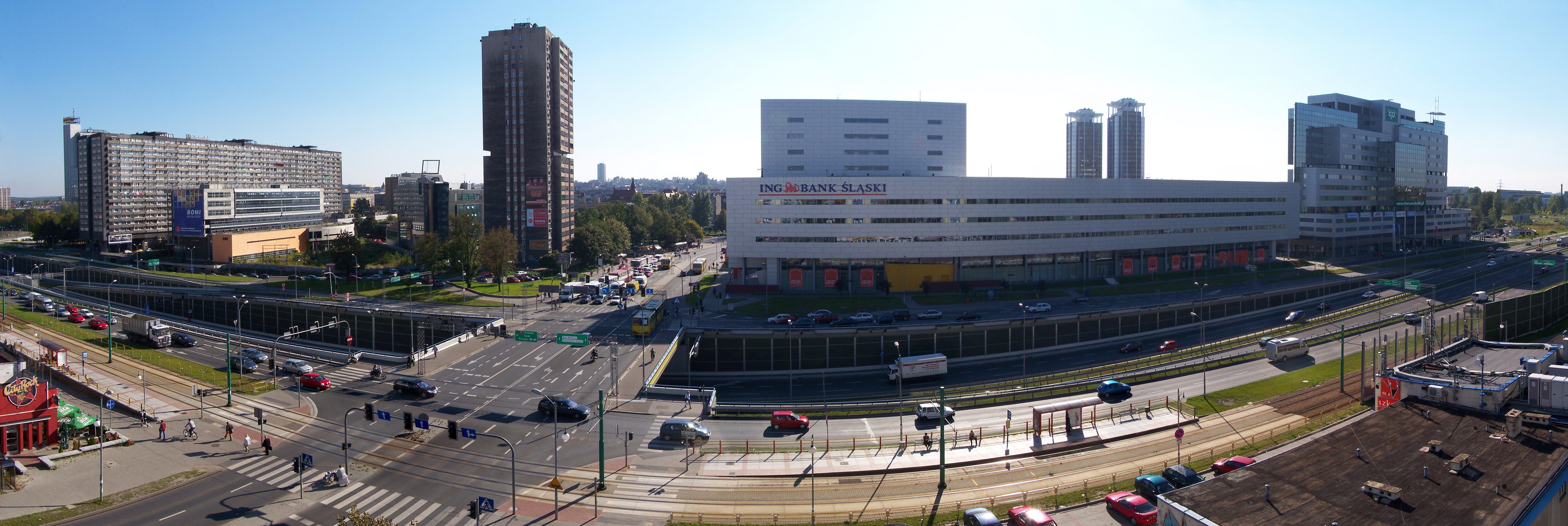 Panorama of Chorzowska Street in Katowice (Poland).